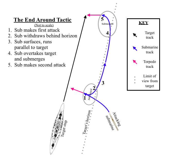 Submarines would parallel a target ship's path to reach firing position, staying out of the target's view so the sub could surface and use its higher surface speed (compared to submerged) to overtake the target and reach attack position.